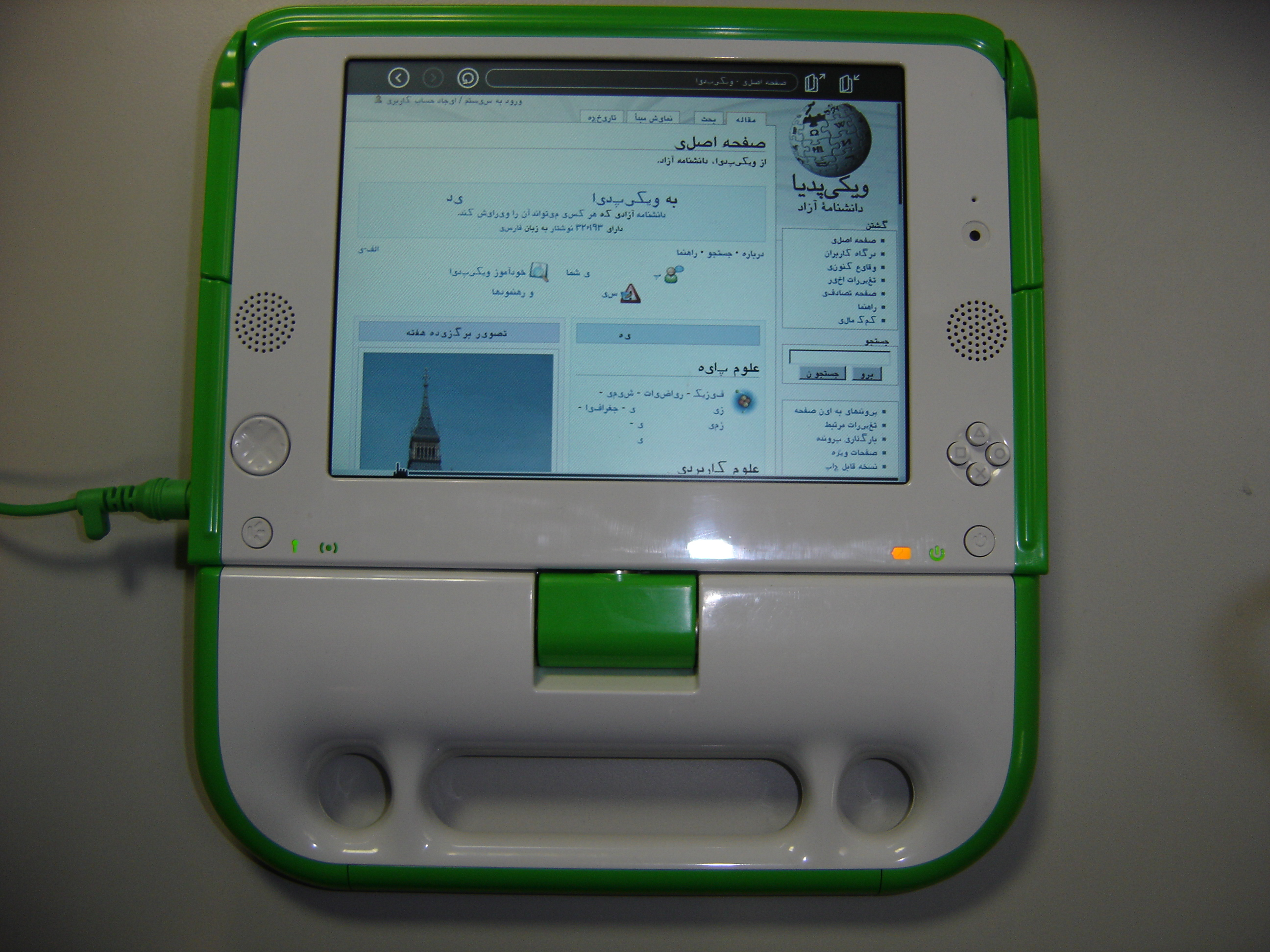 OLPC with Persian Wikipedia, ICTP, Italy